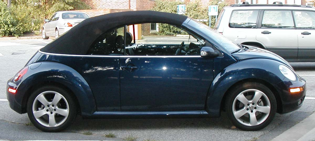 2006 Volkswagen New Beetle cabrio photographed in USA.